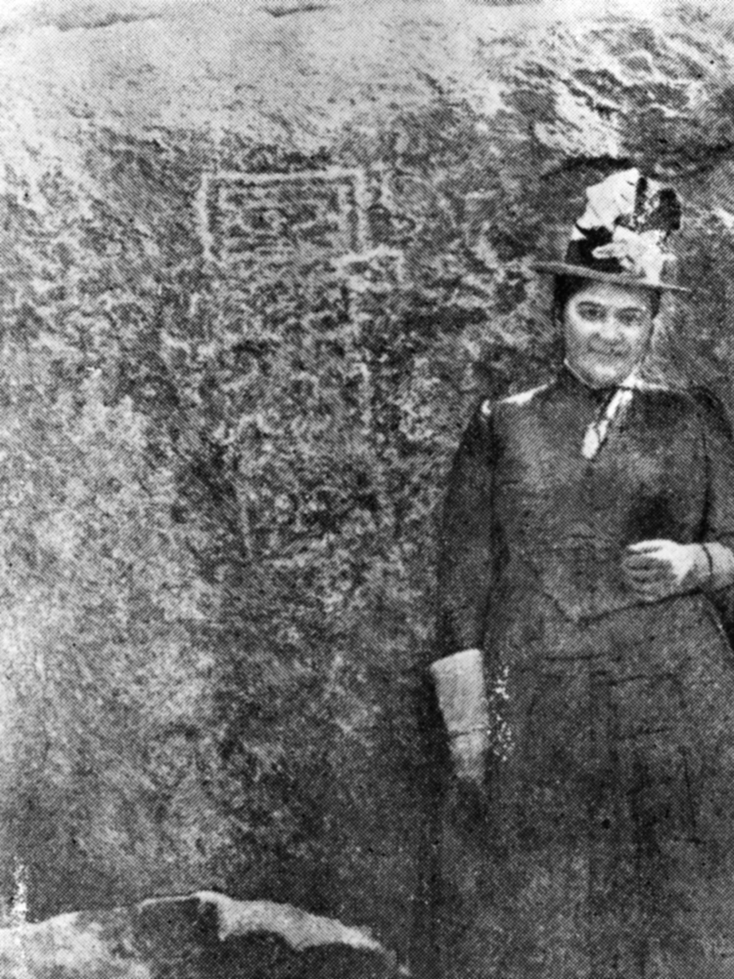 Doña Sofia Loreto Micaela de Peralta-Reavis, wife of James Addison Reavis, standing in front of a "found" map of the Peralta land grant carved in stone.